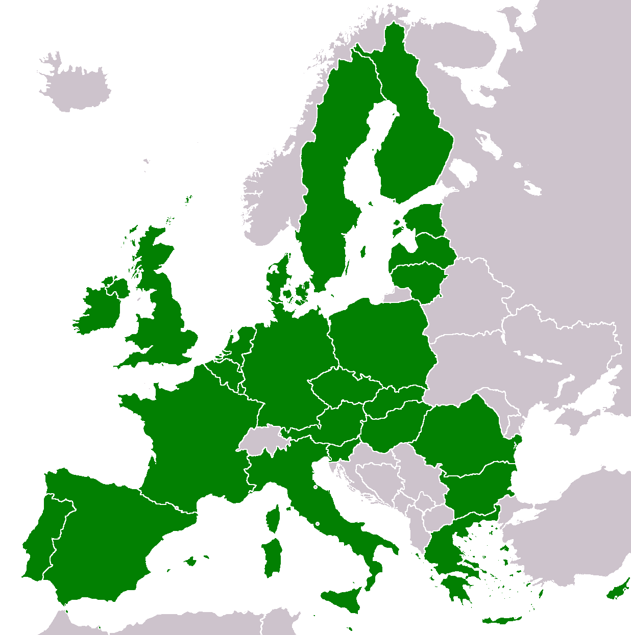 Modified version of map Image:Reform_Treaty_ratification3.png